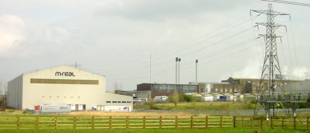 Kemsley Paper Mill. Kemsley Mill, and its associated company village was built in 1924. The mill produces all grades of paper and card.